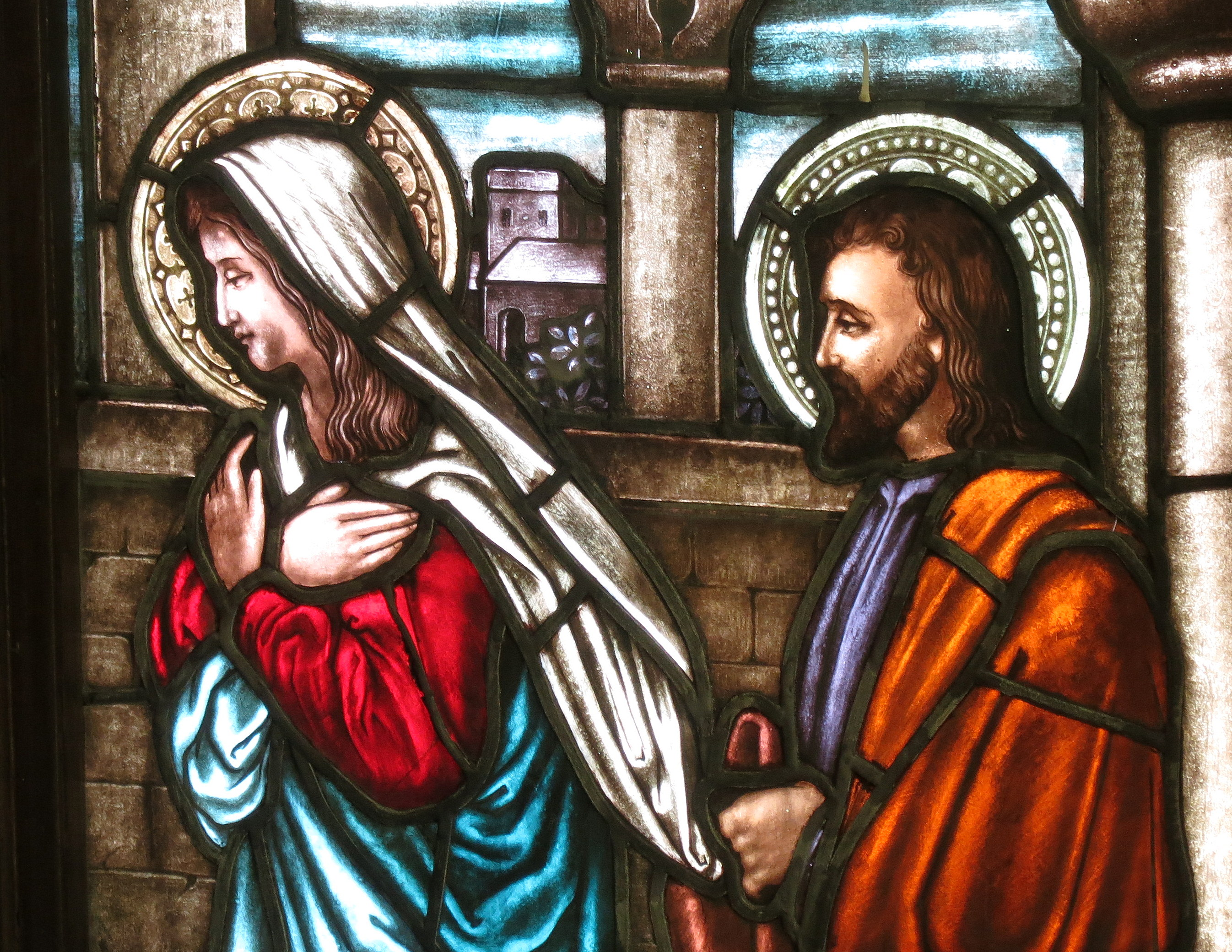 Saint Bernard Catholic Church (Corning, Ohio) - stained glass, Presentation of the Lord detail - Mary & Joseph